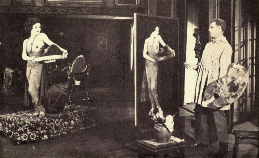 Still from the American drama film Revelation (1918) with Alla Nazimova and Charles Bryant, facing page 20 of the 1919 edition of the Wagnalls novel. Caption: She was a good-hearted little creature - at least so thought Granville. She would pose for him by the hour with the utmost patience.